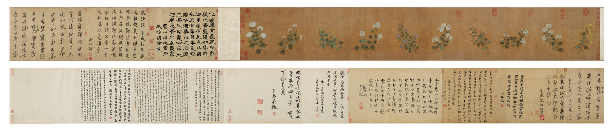 Zhao Mengfu. Ten Chrisantemums. Scroll. 1300-1310. Sotheby's.